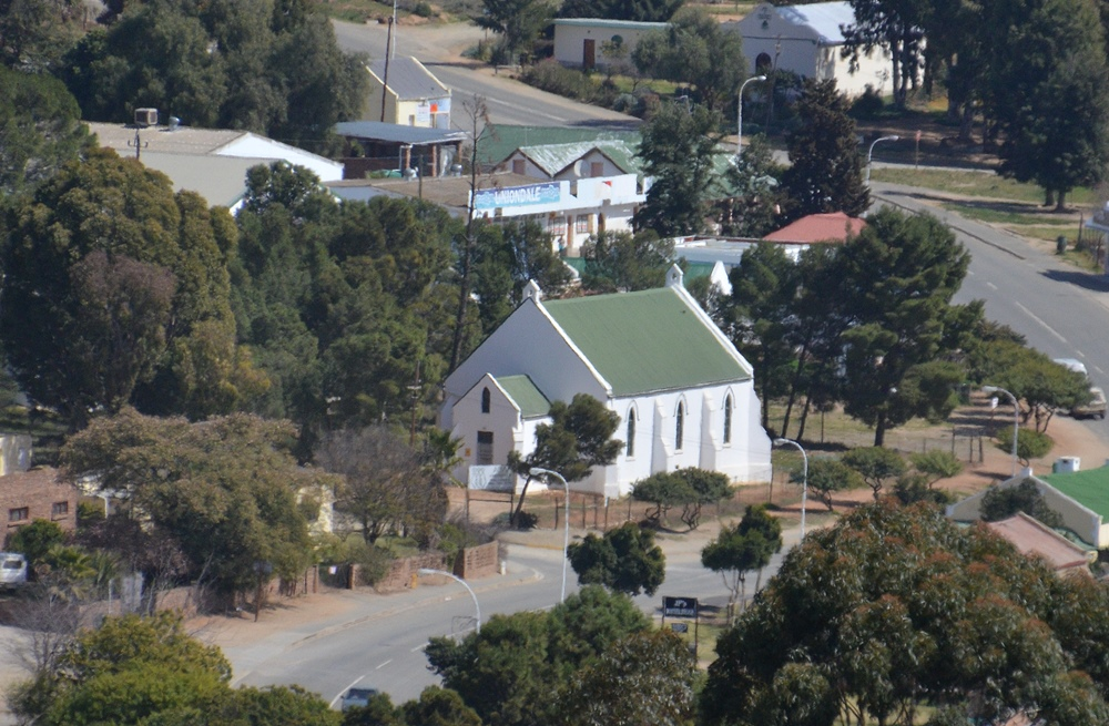 This church was erected in 1862, the style being predominantly neo-Gothic. It is closely connected with the history of the town. This media shows a South African Protected Site with SAHRA file reference 9/2/096/0008.